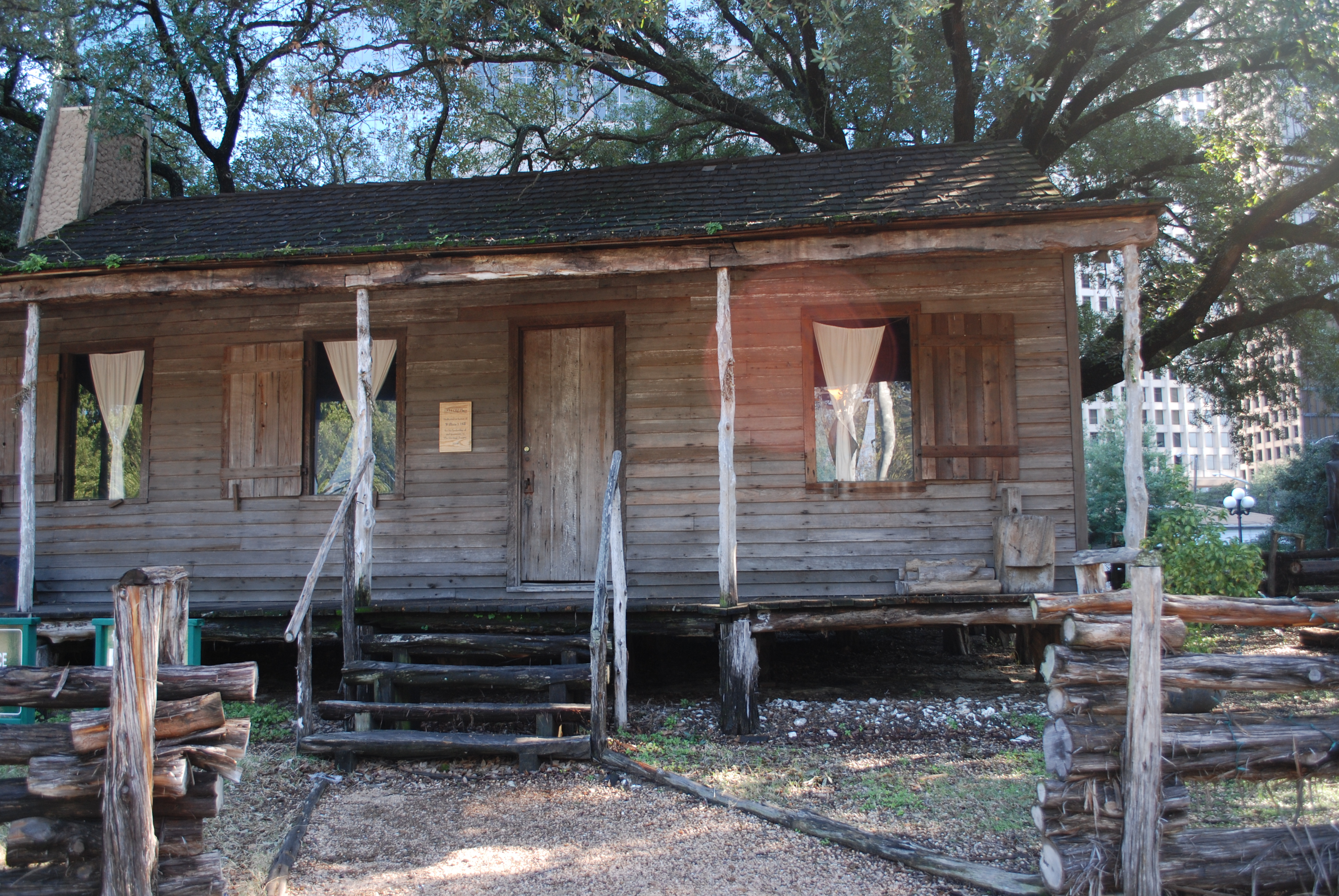 A rustic cabin built of rough-sawn cedar planks in about 1823 by John R. Williams who was a Texas colonist and part of the Old Three Hundred. Originally built along the banks of Clear Creek, it is the oldest-known structure in Harris County, Texas, and is a part of Sam Houston Park.